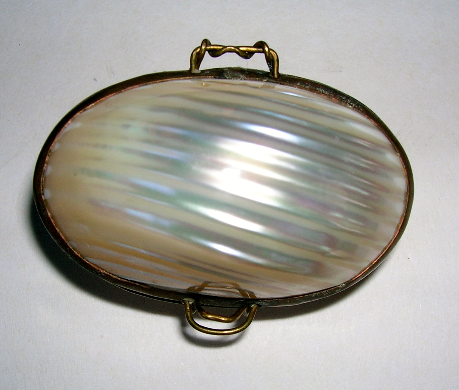 Victorian small Shell Purse - Mother of Pearl exterior. Gilded wire hinge and clasp.